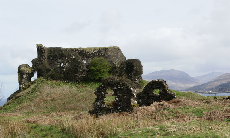 Aros Castle (Mull, Scotland) - exterior